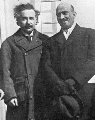 Albert Einstein and "leaders of the World Zionist Organization" published in the USA in 1921. Also pictured are Chaim Weizmann, Menachem Ussishkin and Ben-Zion Mossinson (headmaster of the Herzliya Hebrew Gymnasium) onboard SS Rotterdam (1908).